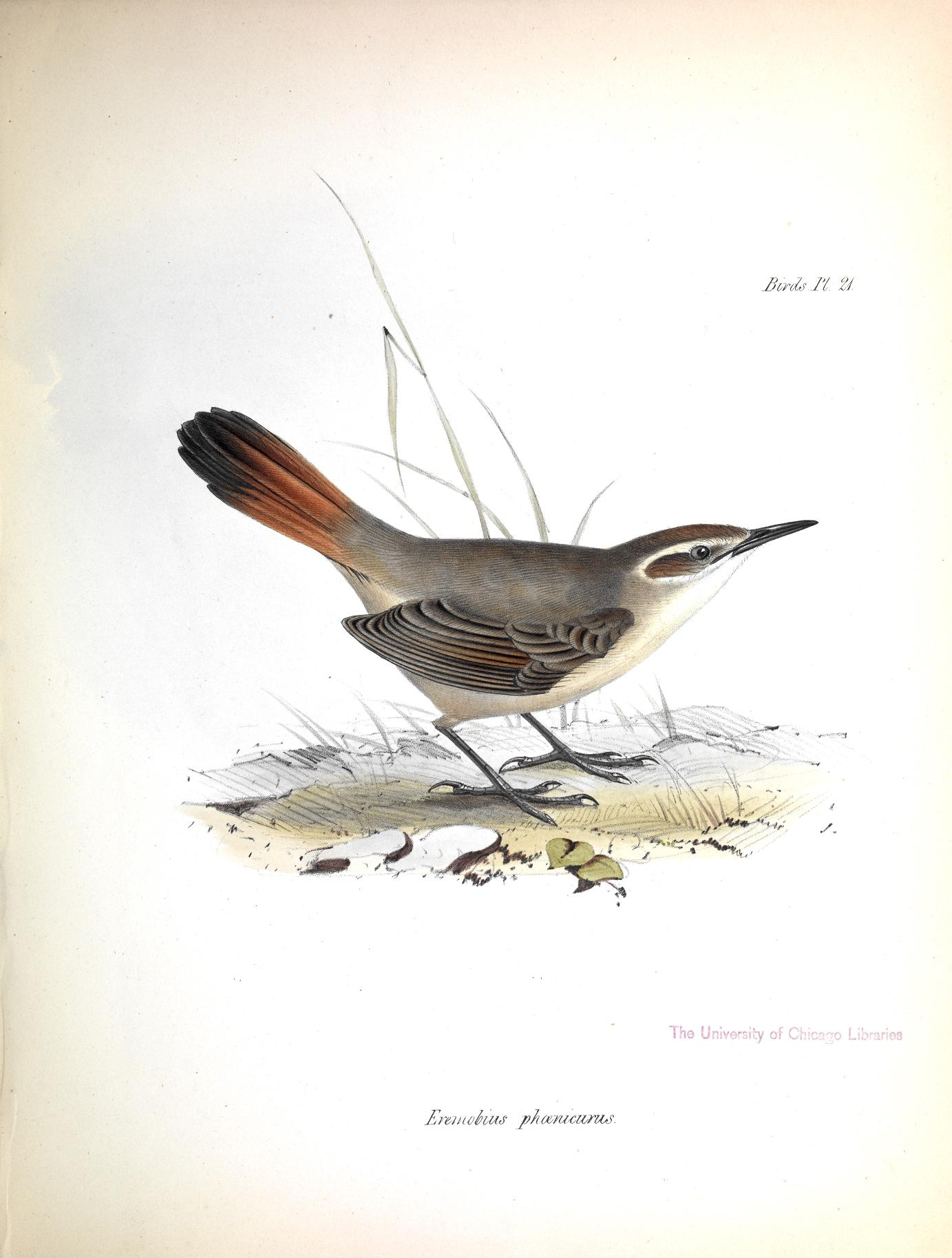 Band-tailed Earthcreepr Ochetorhynchus phoenicurus as a Eremobius phoenicurus. John Gould, 1841